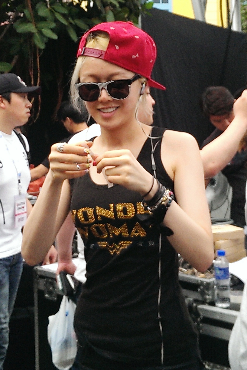 Kim Boa (SPICA) at Music Matters Live in Singapore (25 May 2013)